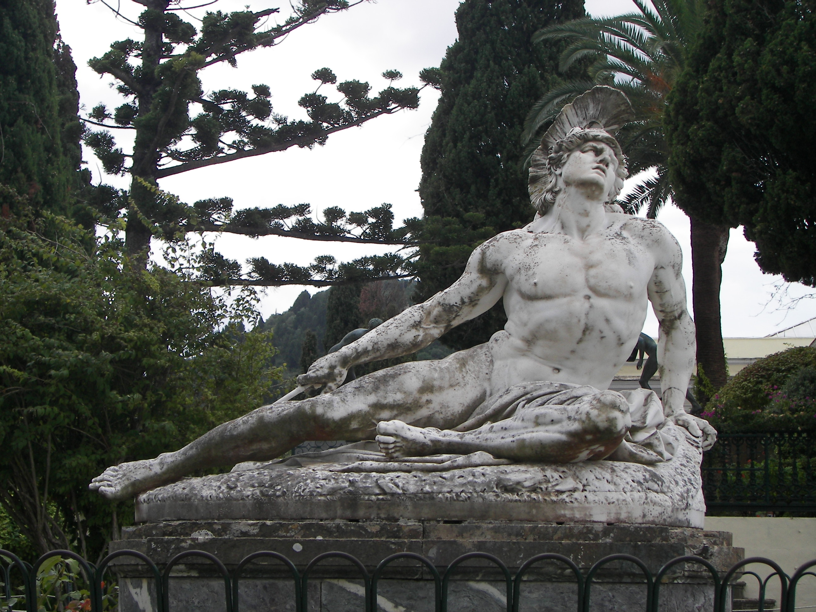 Dying Achilles at Achilleion, Corfu. Sculptor: Ernst Herter, 1884. Ernst Herter (1846–1917) DescriptionGerman sculptorDate of birth/death 14 May 1846 19 December 1917Location of birth/death Berlin BerlinWork location BerlinAuthority control : Q871262 VIAF: 77111692 ISNI: 0000 0001 2102 5176 ULAN: 500267506 LCCN: n87129740 GND: 118774247 WorldCat creator QS:P170,Q871262